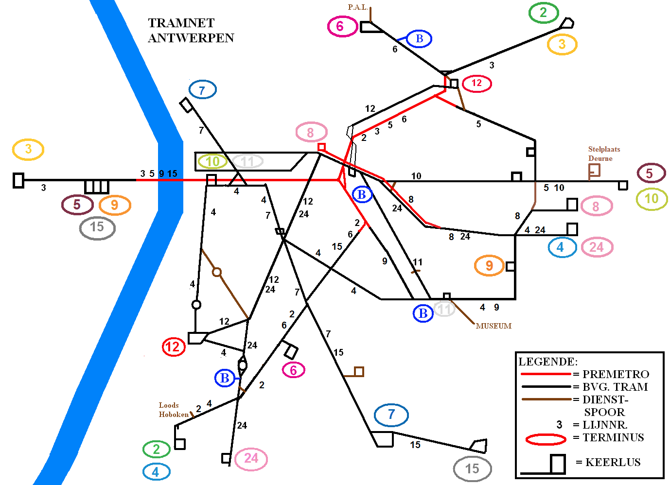 Map of the Antwerp Tramway network until 1 september 2012. Red lines = Premetro tunnel Black line = surface tramway track Brown line = Service track, (nearly) not used in regular traffic "B" = NMBS railway station